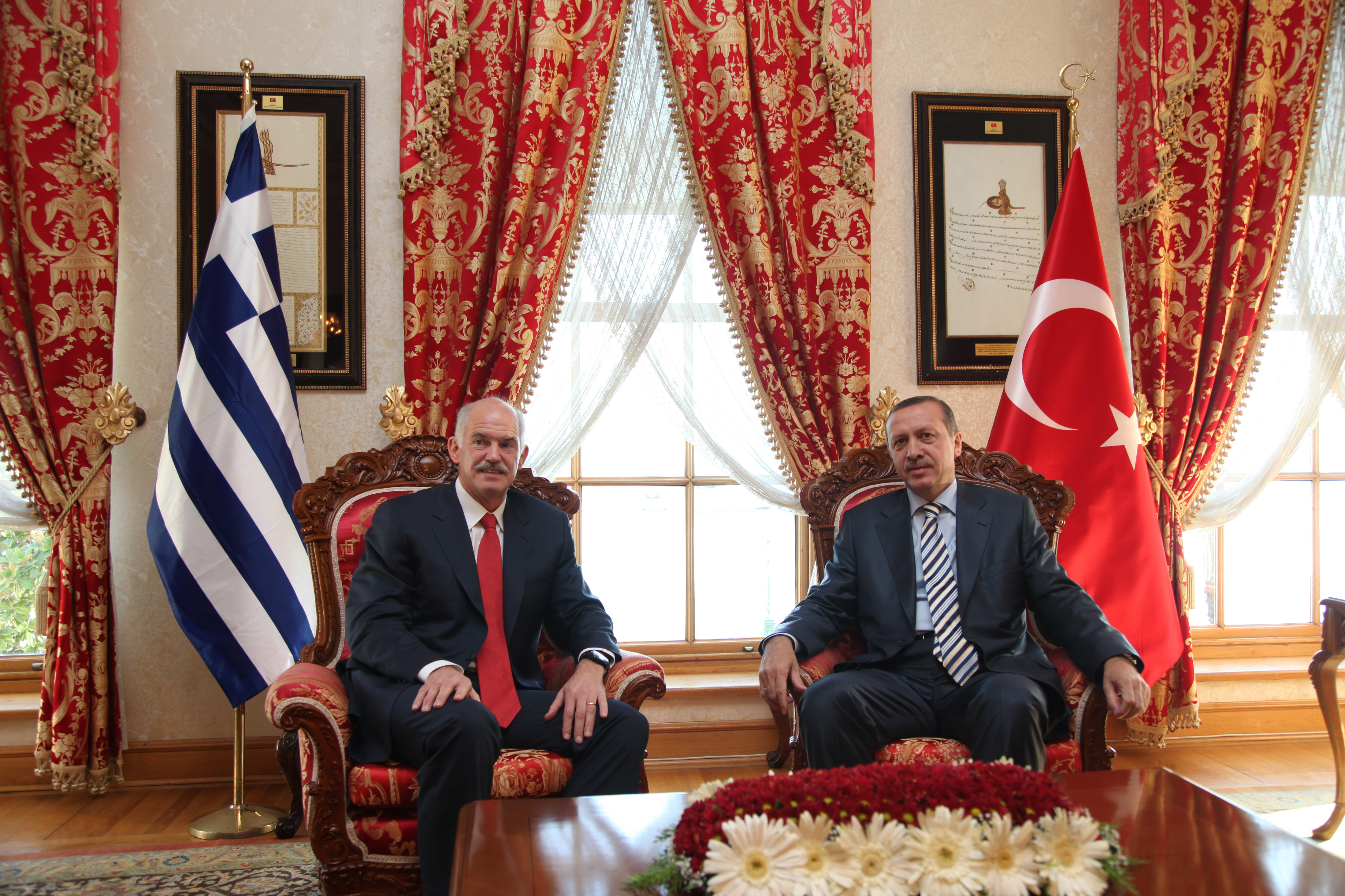 Turkish Prime Minister Recep Tayyip Erdoğan and Greek Prime Minister George Papandreou, Turkey November 2009.